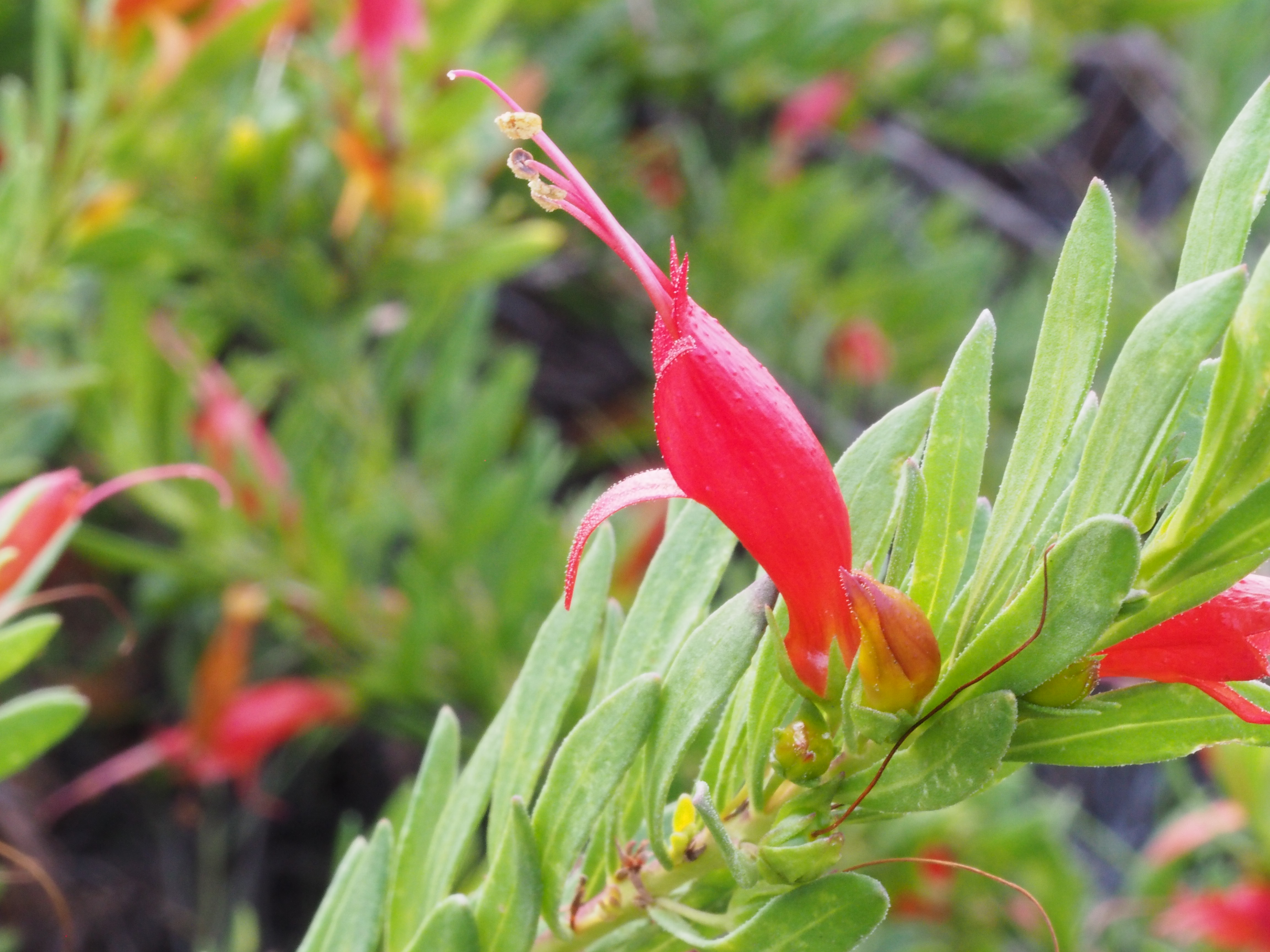 Eremophila glabra carnosa growing in Port Gregory